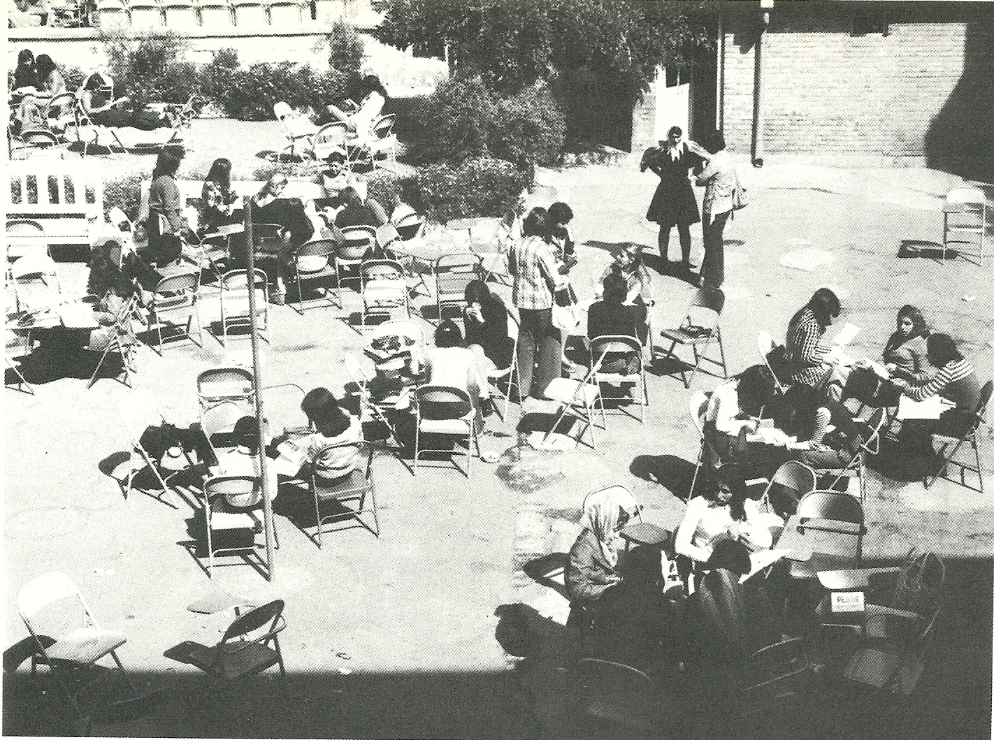 The Former Building of Iran Bethel in 1974. The name was changed to Damavand College in 1968.